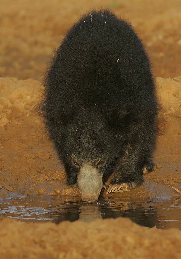 Superficially similar to Asian Black Bears the Sloth bear is in fact a very different beast. A large percentage of this bear's diet comprises of ants and termites. It has rather weak jaws for a bear with a long naked muzzle and a long lower lip which with the upper lip it can roll into a tube; the absence of upper incisors allows the bear to hoover up insects. These bears also have a taste for honey and carrion but eat less vegetable matter than typical bears. This image was taken at a small waterhole at sunset in Yala NP, Sri Lanka.